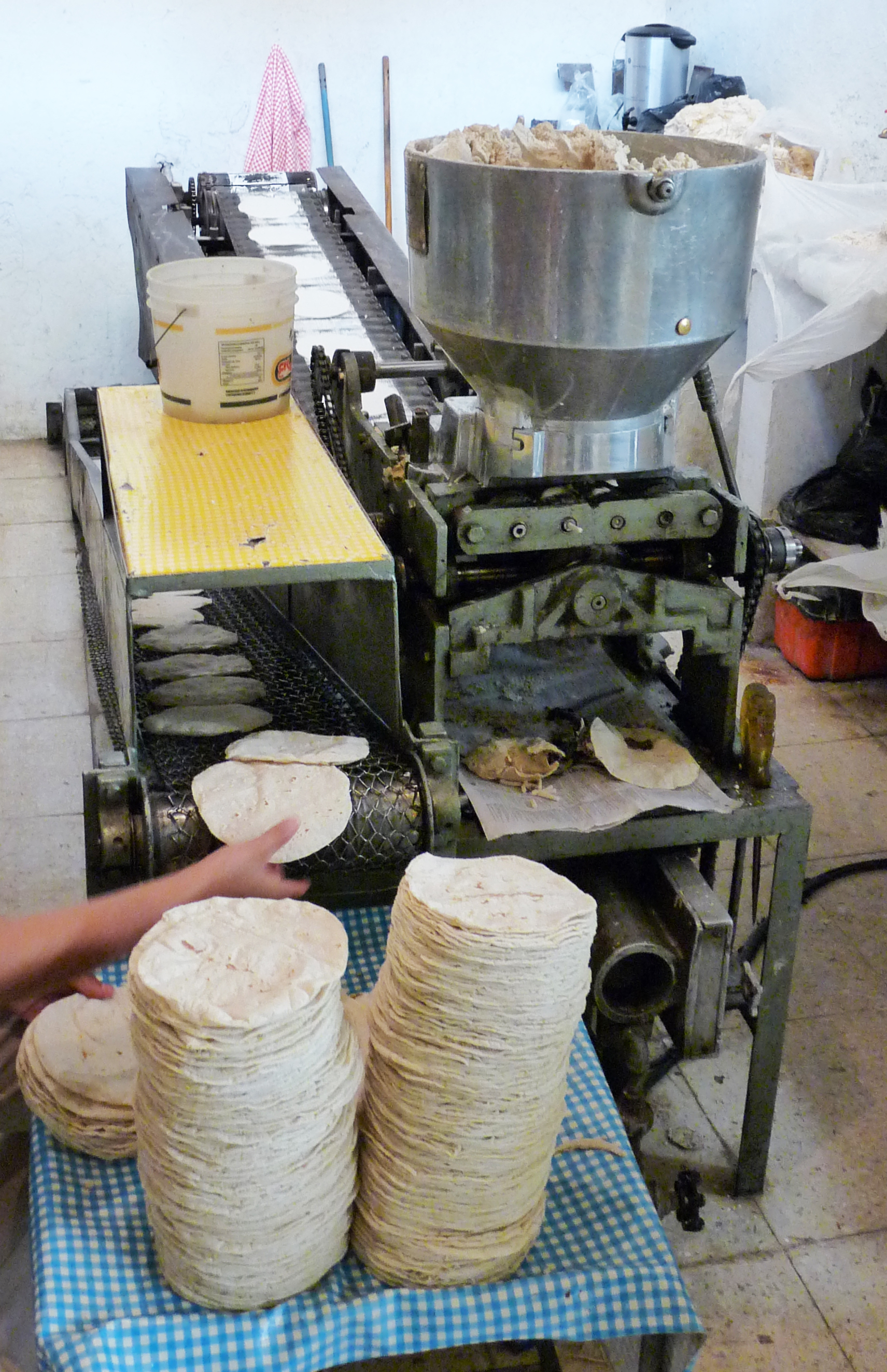 Tortilla machine (market of Xochimilco, México D.F.)